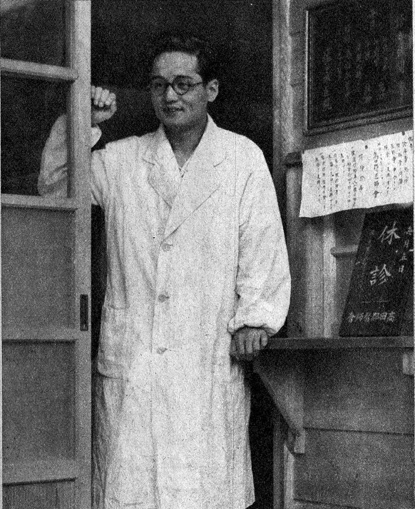 Photograph of person described in Hiroshima